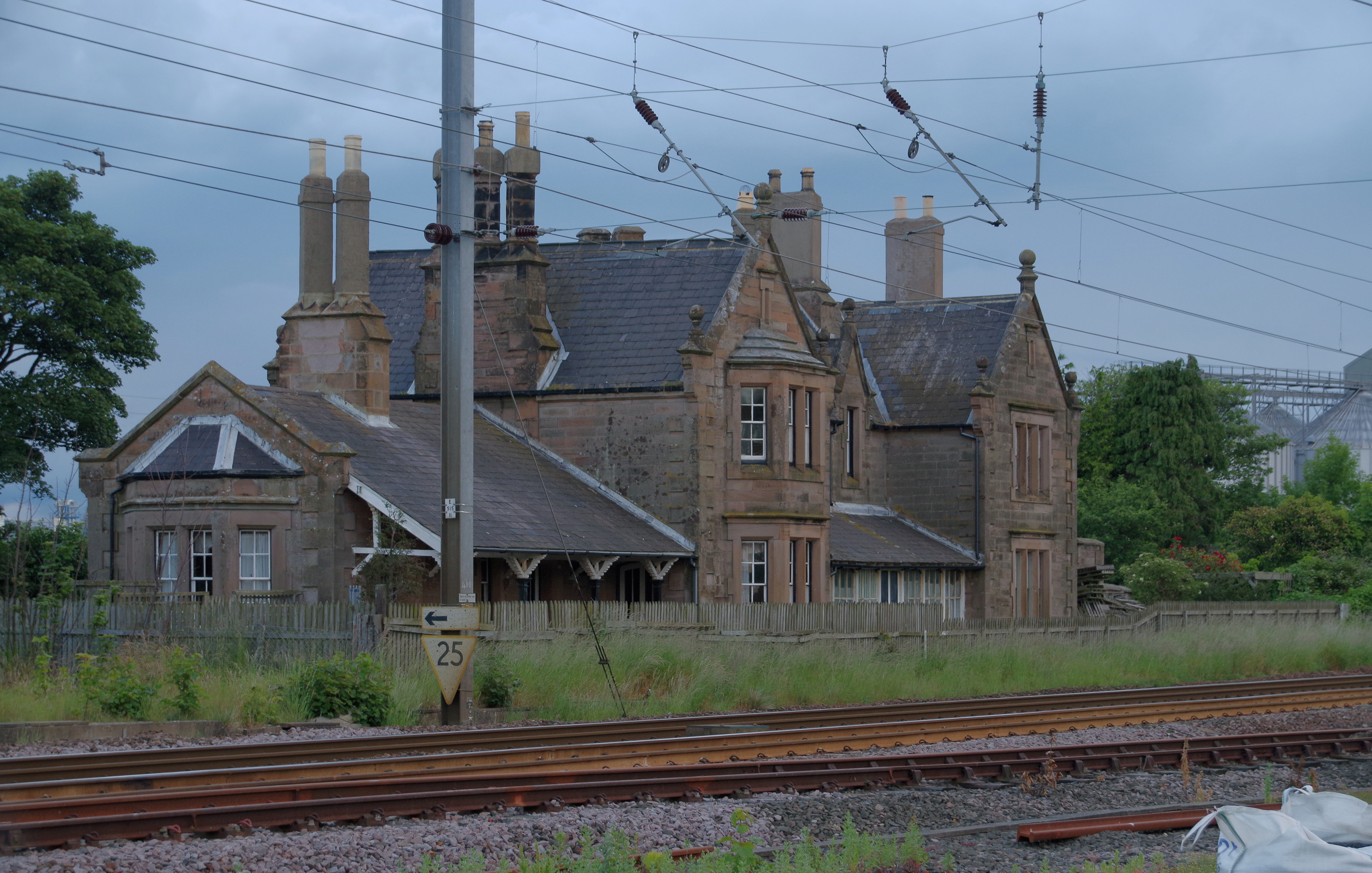 The station building at Belford railway station on the East Coast Main Line. The station, which is south of Berwick-upon-Tweed, closed in 1968.